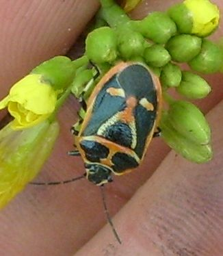 Eurydema gebleri, on blossom of a weedy flower not identified with certainty. Taken on the hillside above Sungjin-ri, Samnangjin-eup, Miryang-si, Gyeongsangnam-do